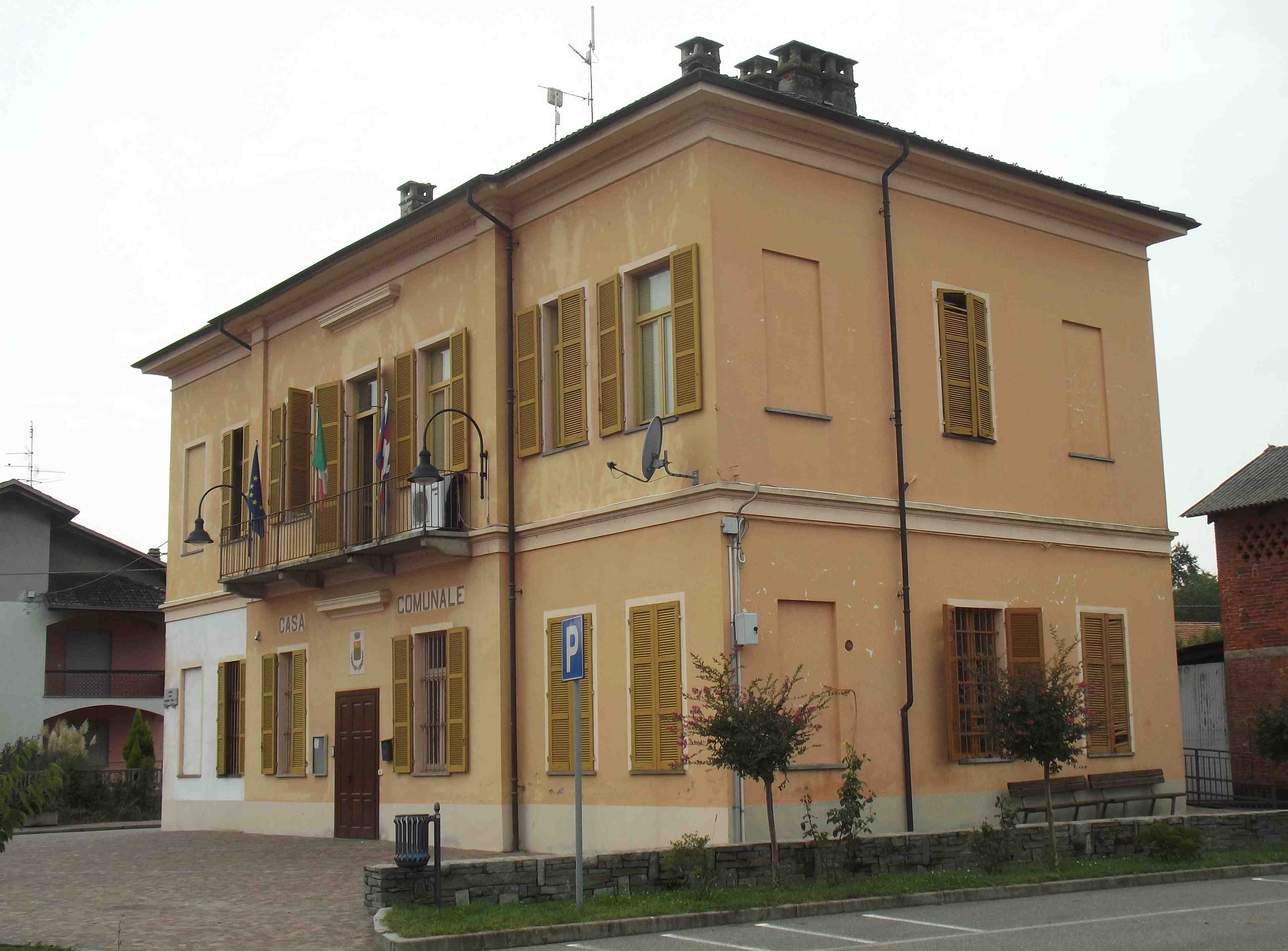 Villanova Biellese (BI, Italy): town hall